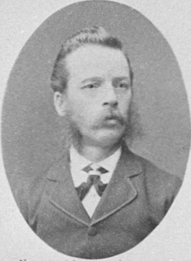 Portrait taken from montage depicting members of the 1882 House of Representatives.